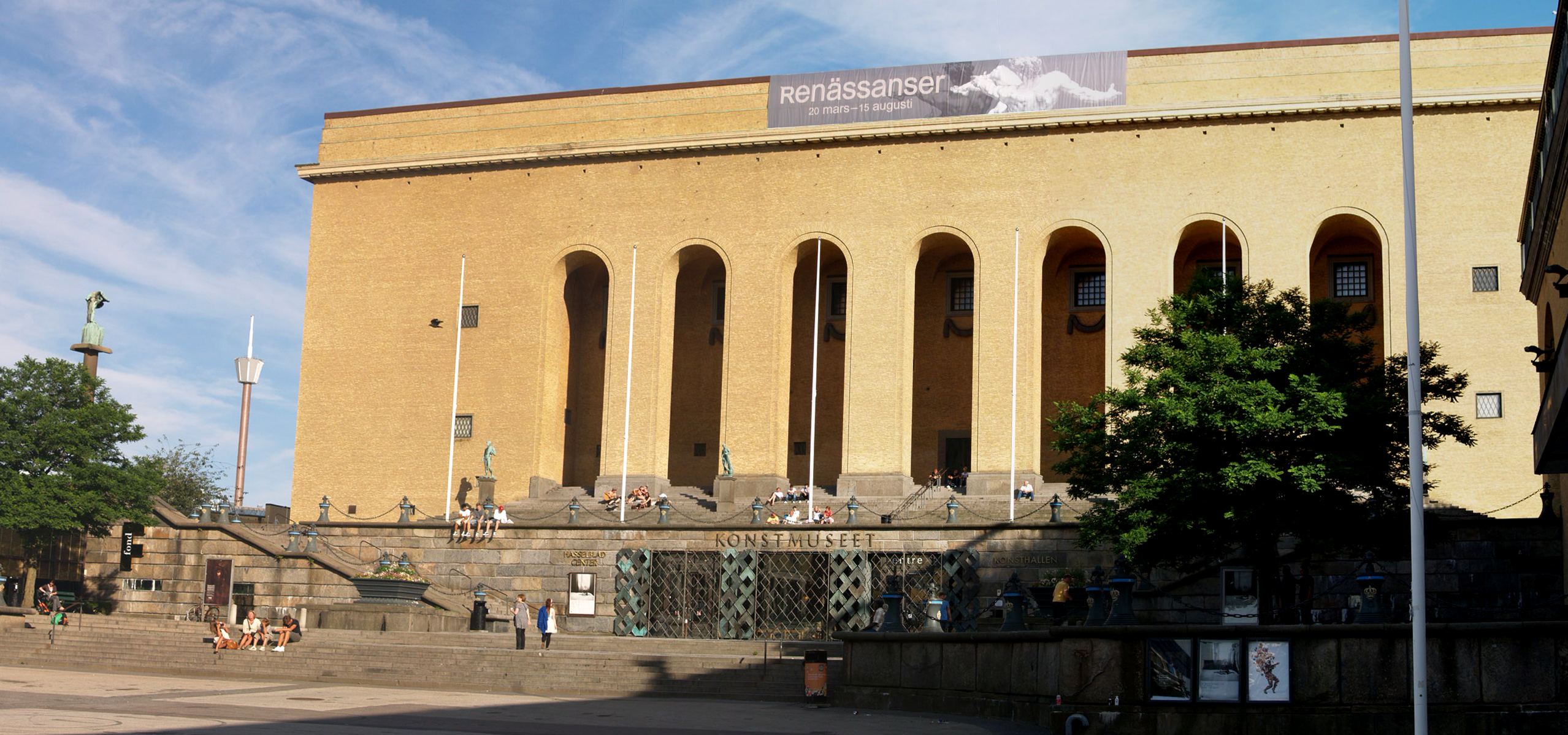 The Art museum in Gothenburg, Sweden.